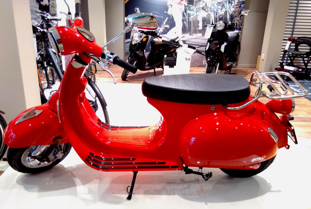 emco NOVA R 2000 electric scooter retro look, red color